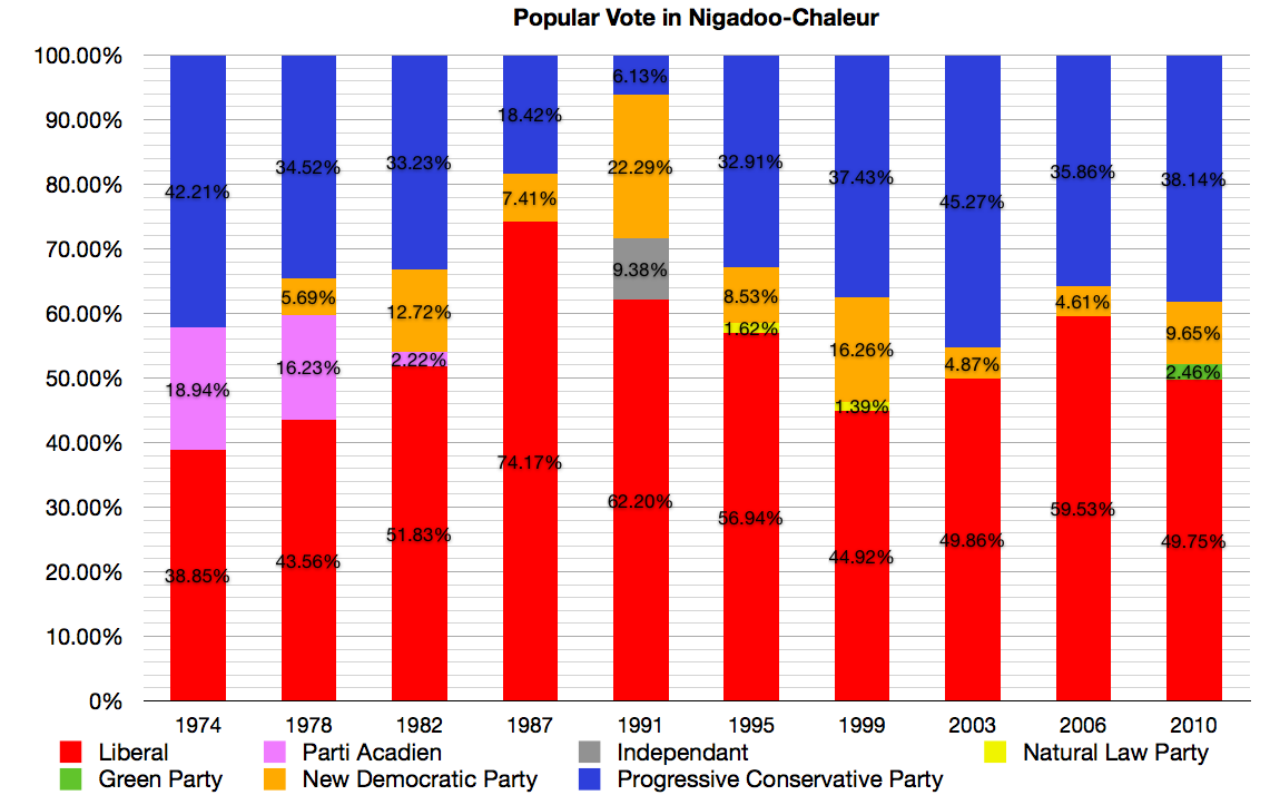 A graph of the popular vote in the Nigadoo-Chaleur provincial electoral district of New Brunswick.